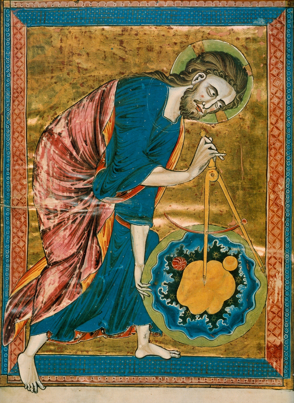 Science, and particularly geometry and astronomy/astrology, was linked directly to the divine for most medieval scholars. The compass in this 13th century manuscript is a symbol of God's act of Creation. God has created the universe after geometric and harmonic principles, to seek these principles was therefore to seek and worship God.